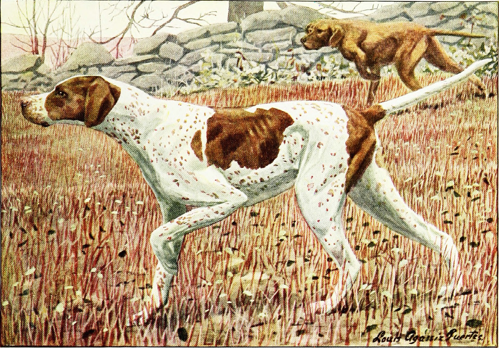 Title: The book of dogs; an intimate study of mankind's best friend Year: 1919 (1910s) Authors: National Geographic Society (U. S. ); Fuertes, Louis Agassiz, 1874-1927; Baynes, Ernest Harold, 1868-1925 Subjects: Dog breeds; Dogs Publisher: Washington, D. C. , The National Geographic Society Text Appearing Before Image: ' Text Appearing After Image: POINTER ' â¢â Â»Â«i&^